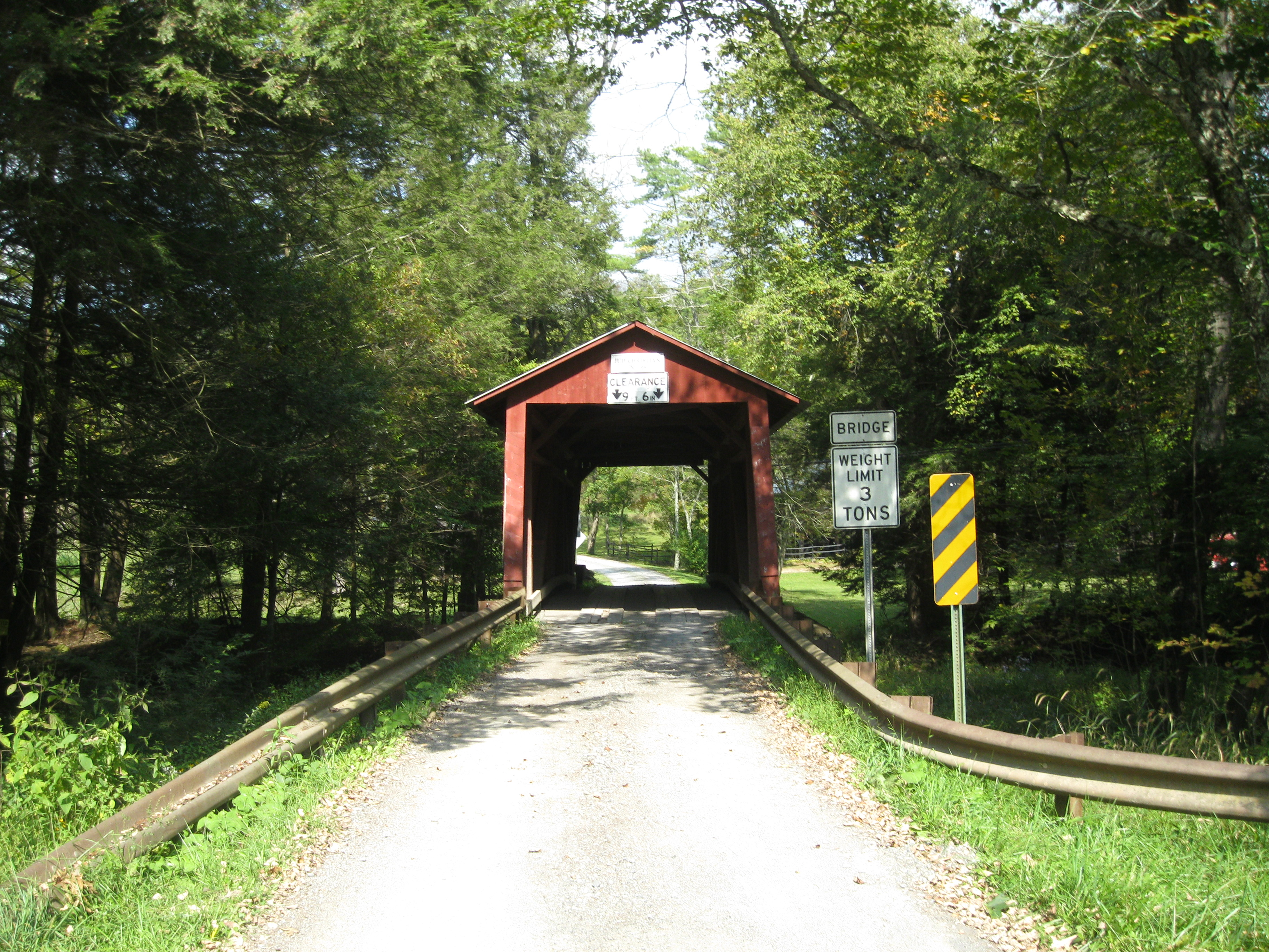 Jud Christie Covered Bridge No. 95 built in 1876 over Little Fishing Creek between Jackson and Pine Townships in Columbia County, Pennsylvania in the United States.